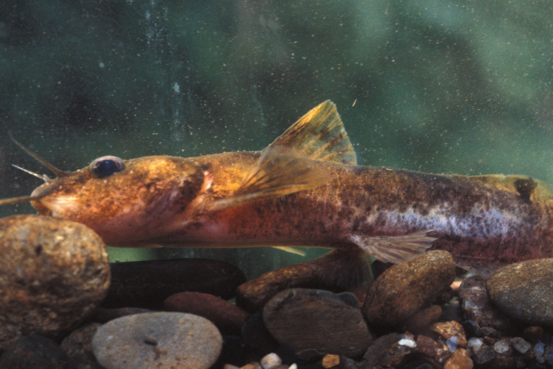 Noturus flavipinnis USFWS photo